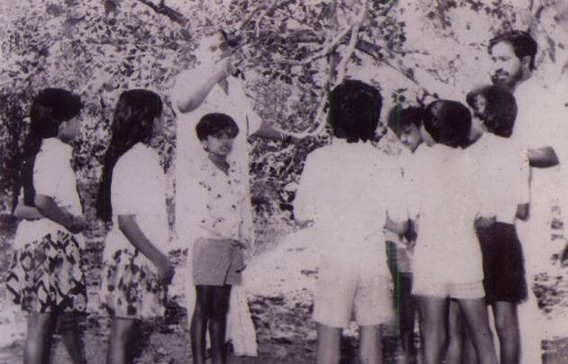 Rangaprabhath Children's Theatre in the early years; G. Sankara Pillai leading the first theatre workshop for children in 1980 in Rangaprabhath